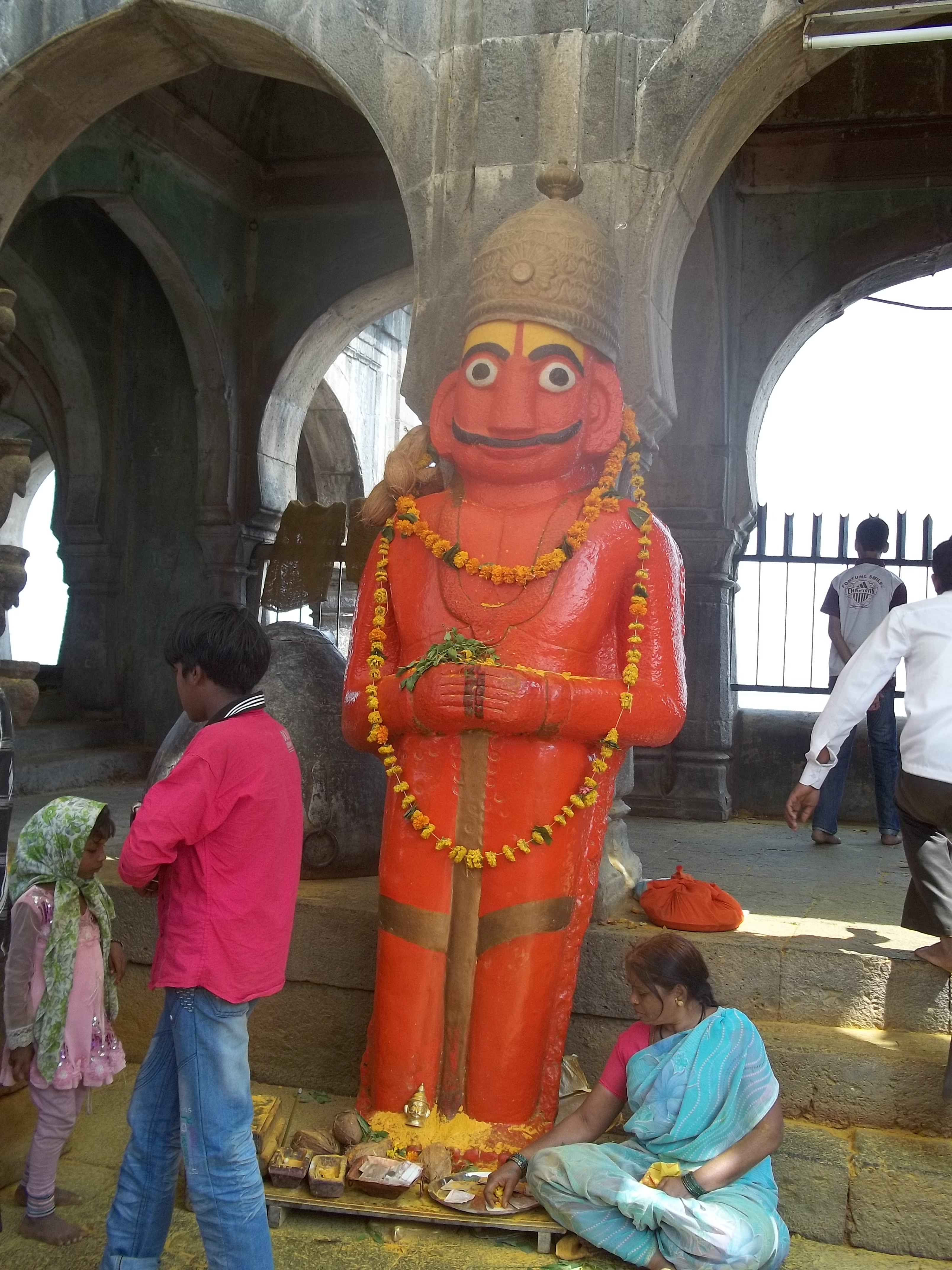 Famous for Khandoba deity